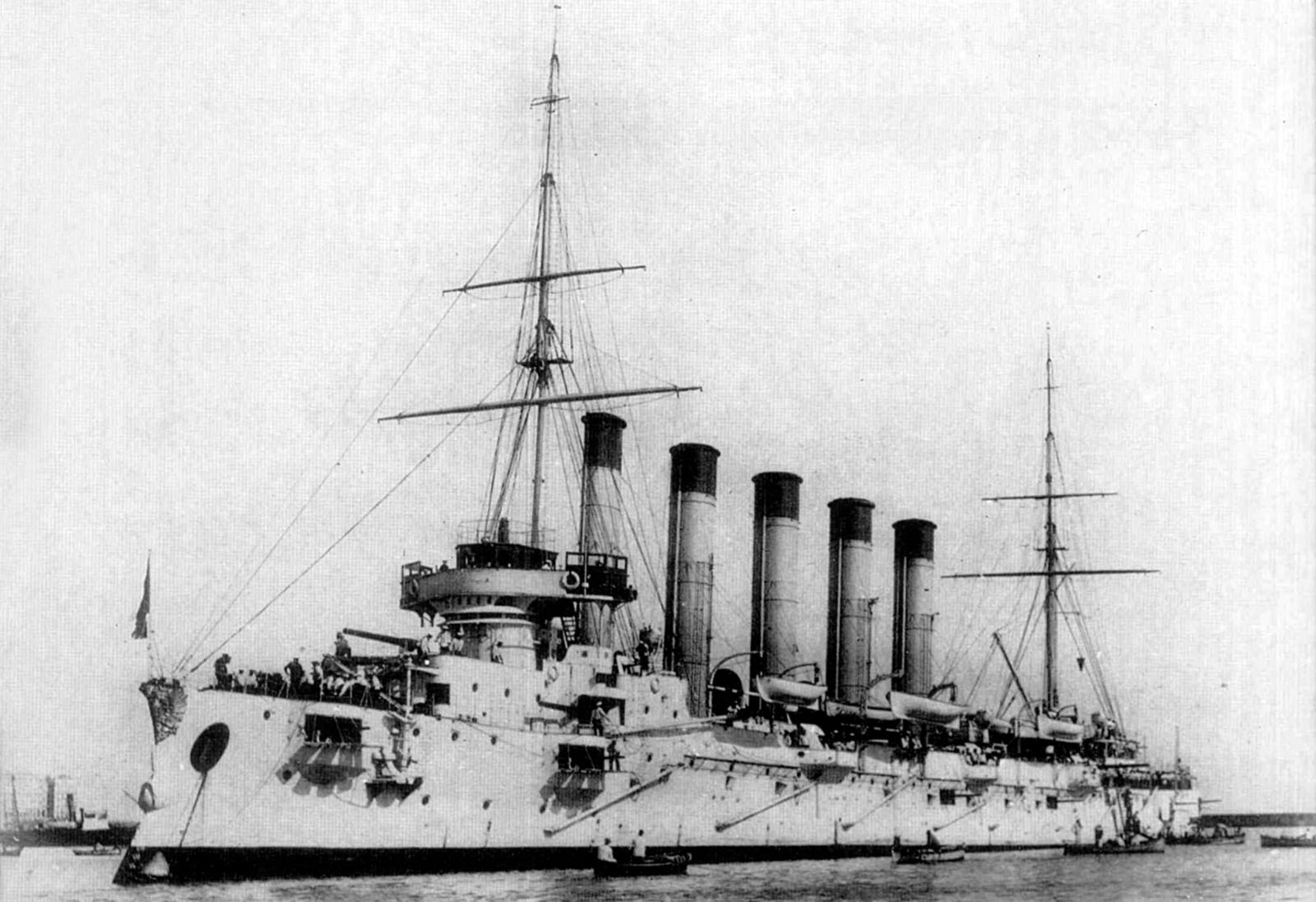 Imperial Russian protected cruiser Askol'd.